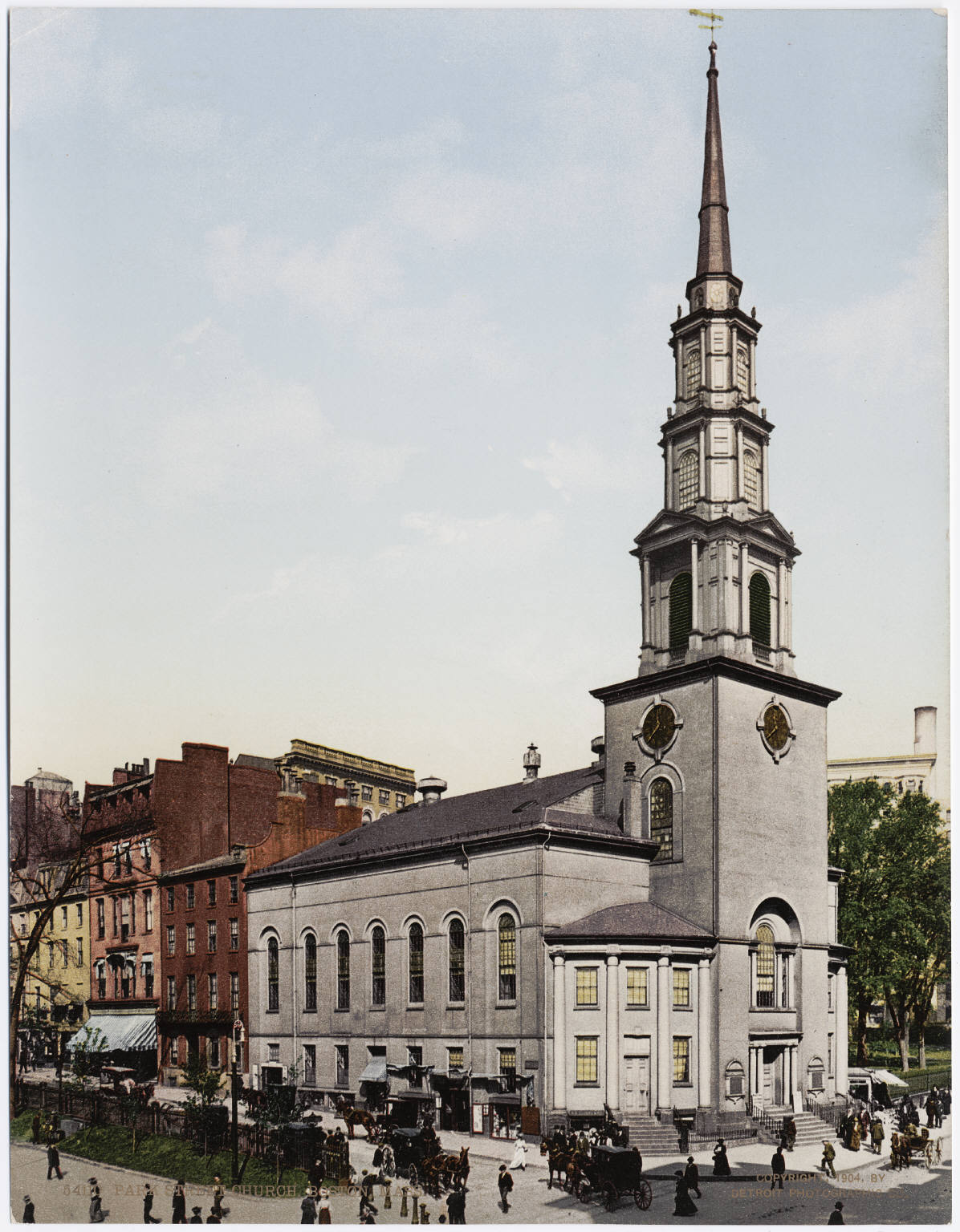 A photochrom postcard published by the Detroit Photographic Company.